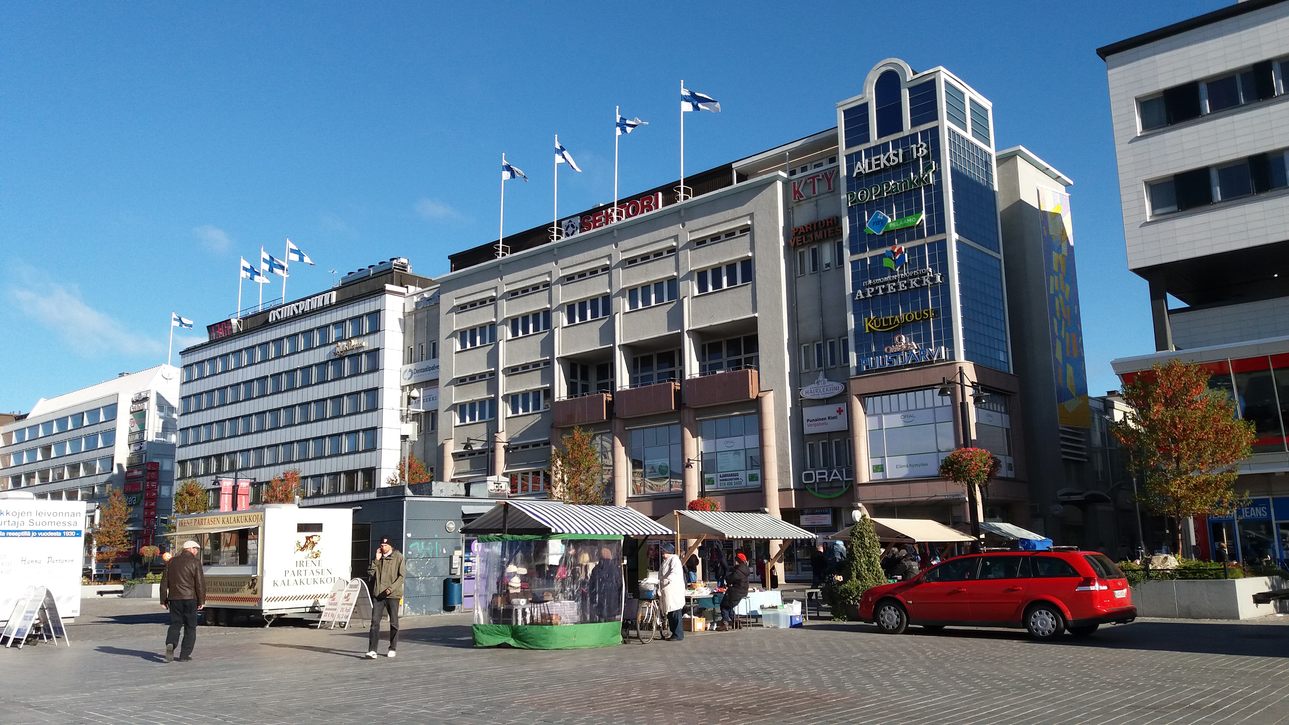 Building near Kuopio Market Square.